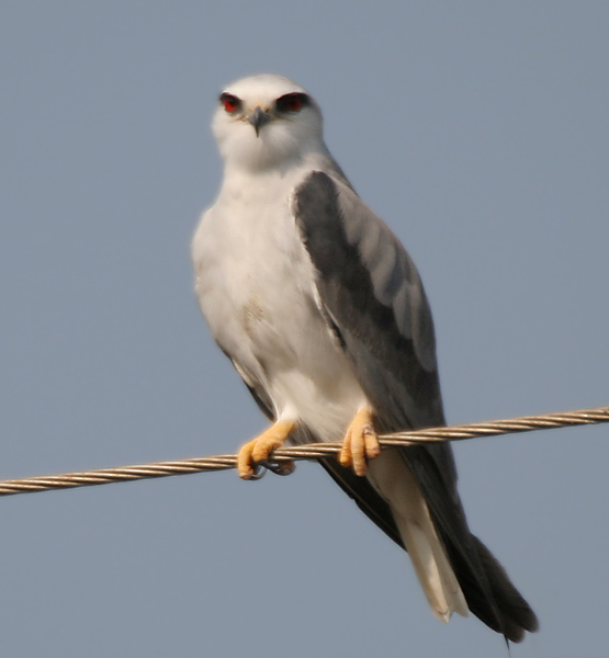 Black-shouldered Kite Elanus caeruleus in Kawal Wildlife Sanctuary, Andhra Pradesh, India.